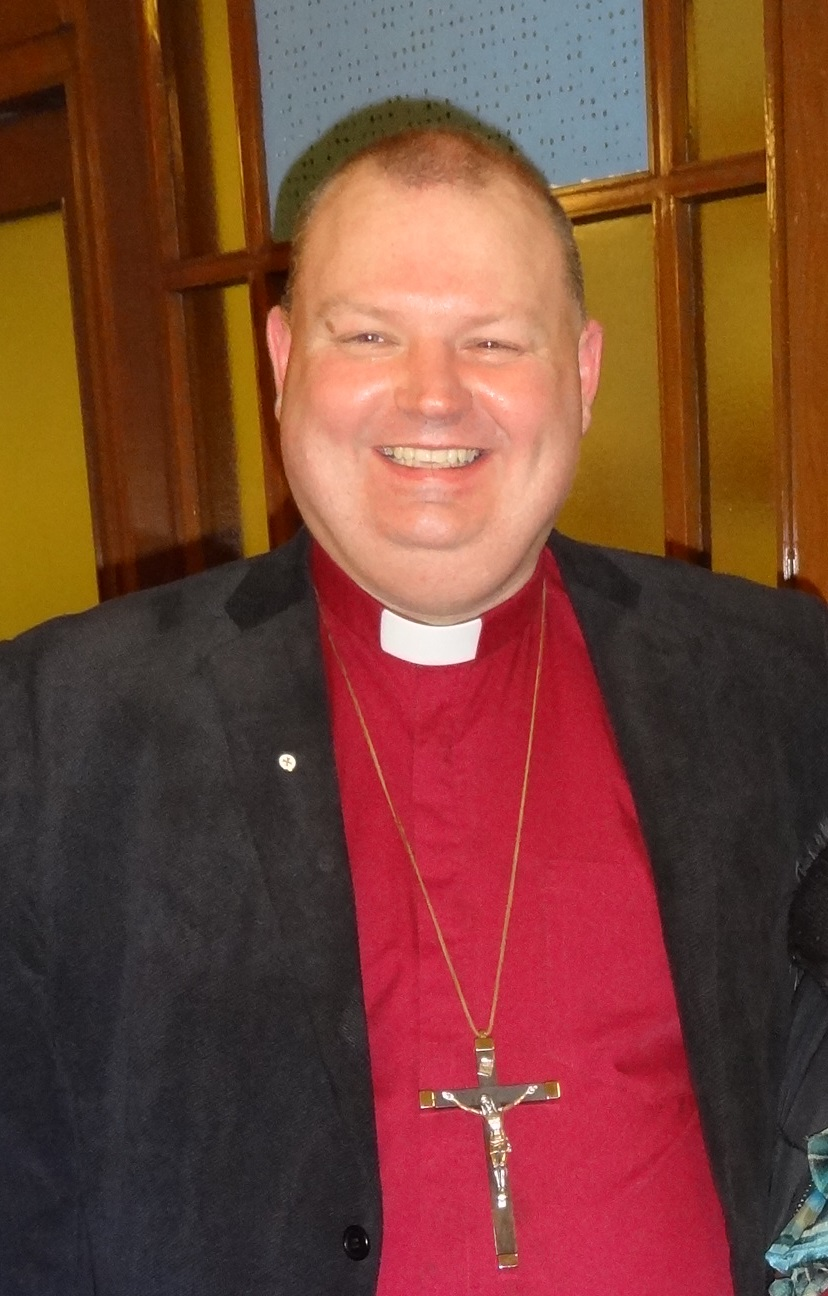 Polish-Catholic Bishop Andrew Hall